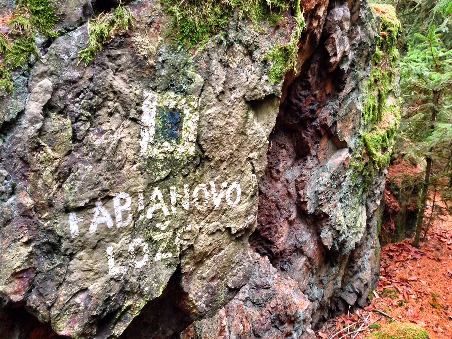 Rock "Fabiánovo lože" near summit of Velká Baba in Brdy mountains.